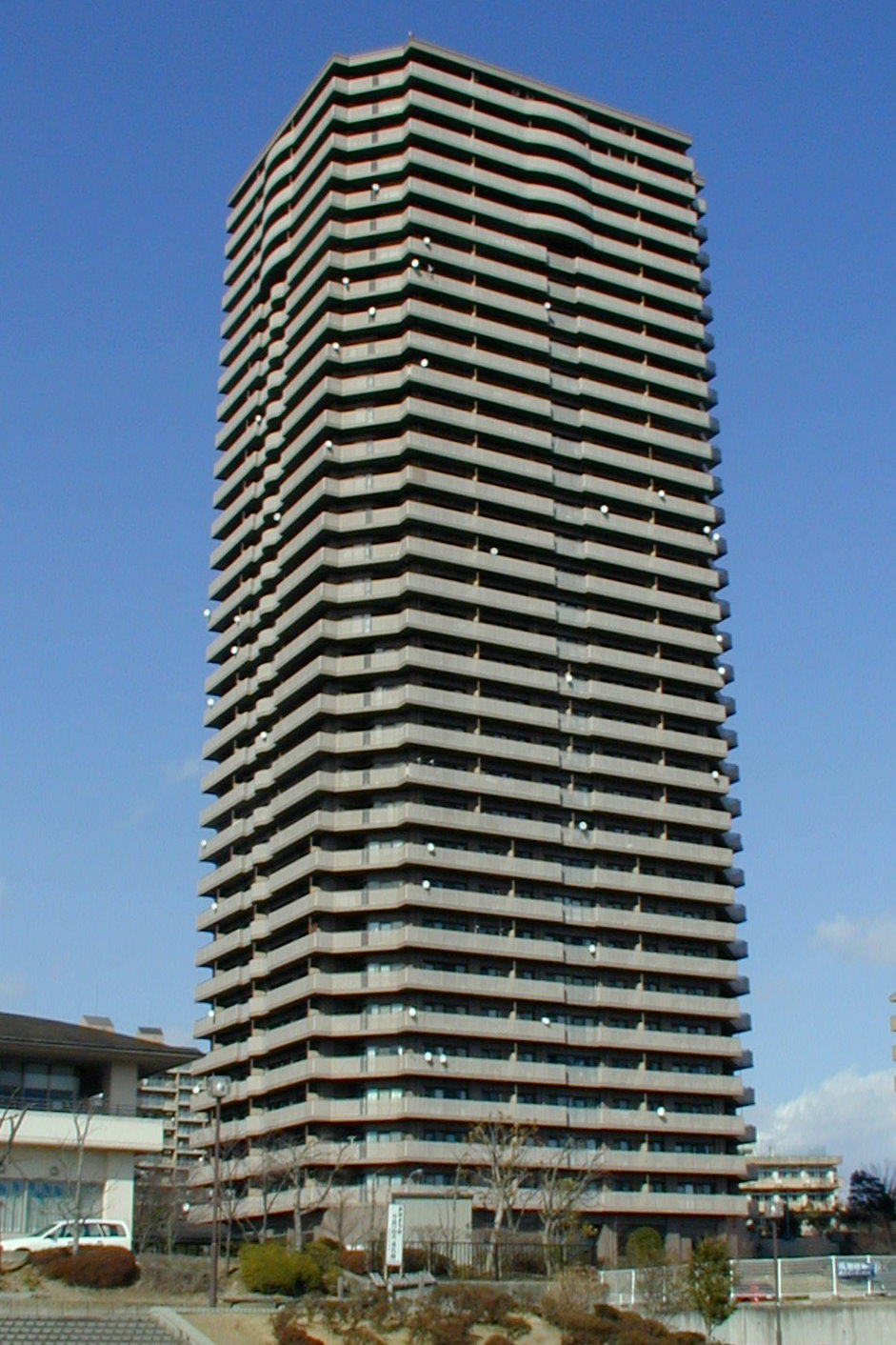 DiaCity 2000 Moniwa Atlas Tower viewed from the south